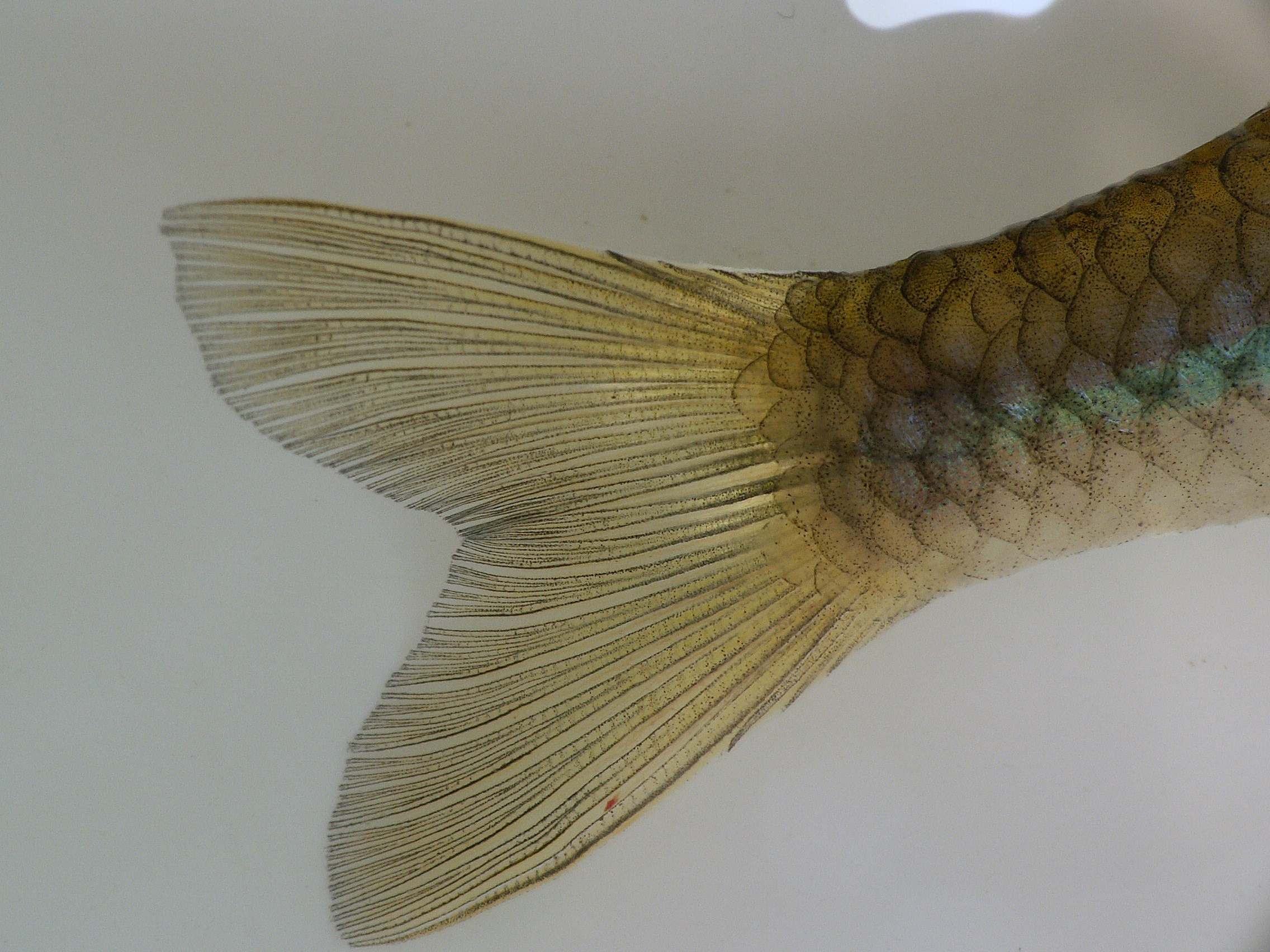 Tailfin of European Bitterling (Rhodeus amarus). The soft fin rays of the tail have a few branches.